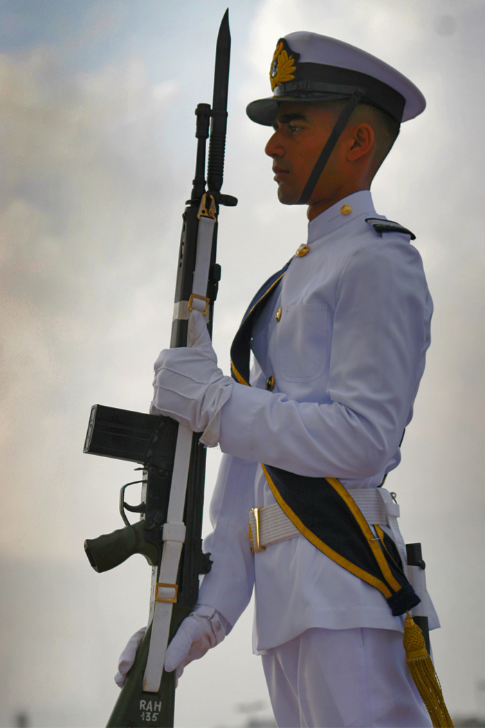 New guard from the Pakistani navy taking over at Tomb of Quaid on Independence day 2009.